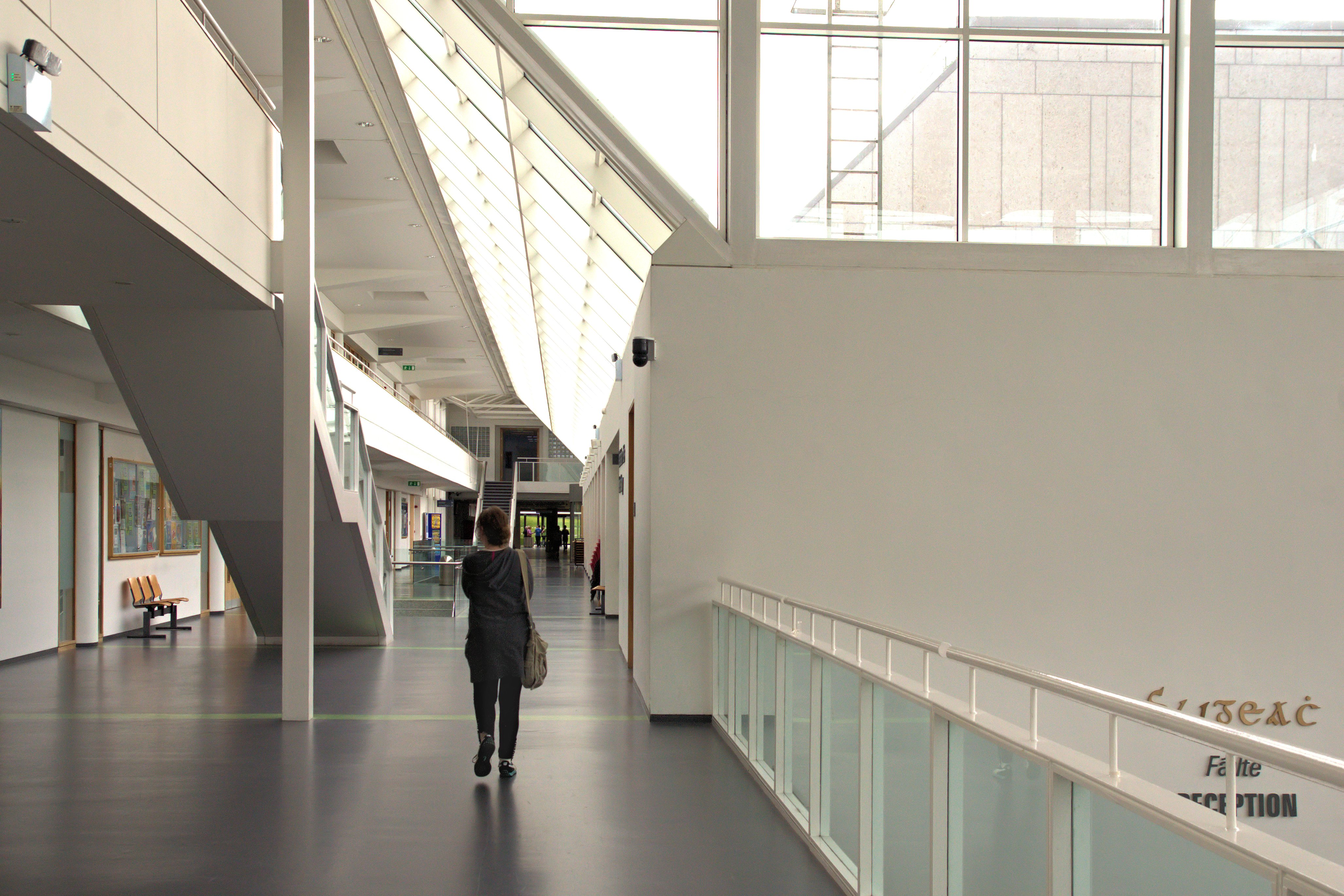 2nd floor near the new library